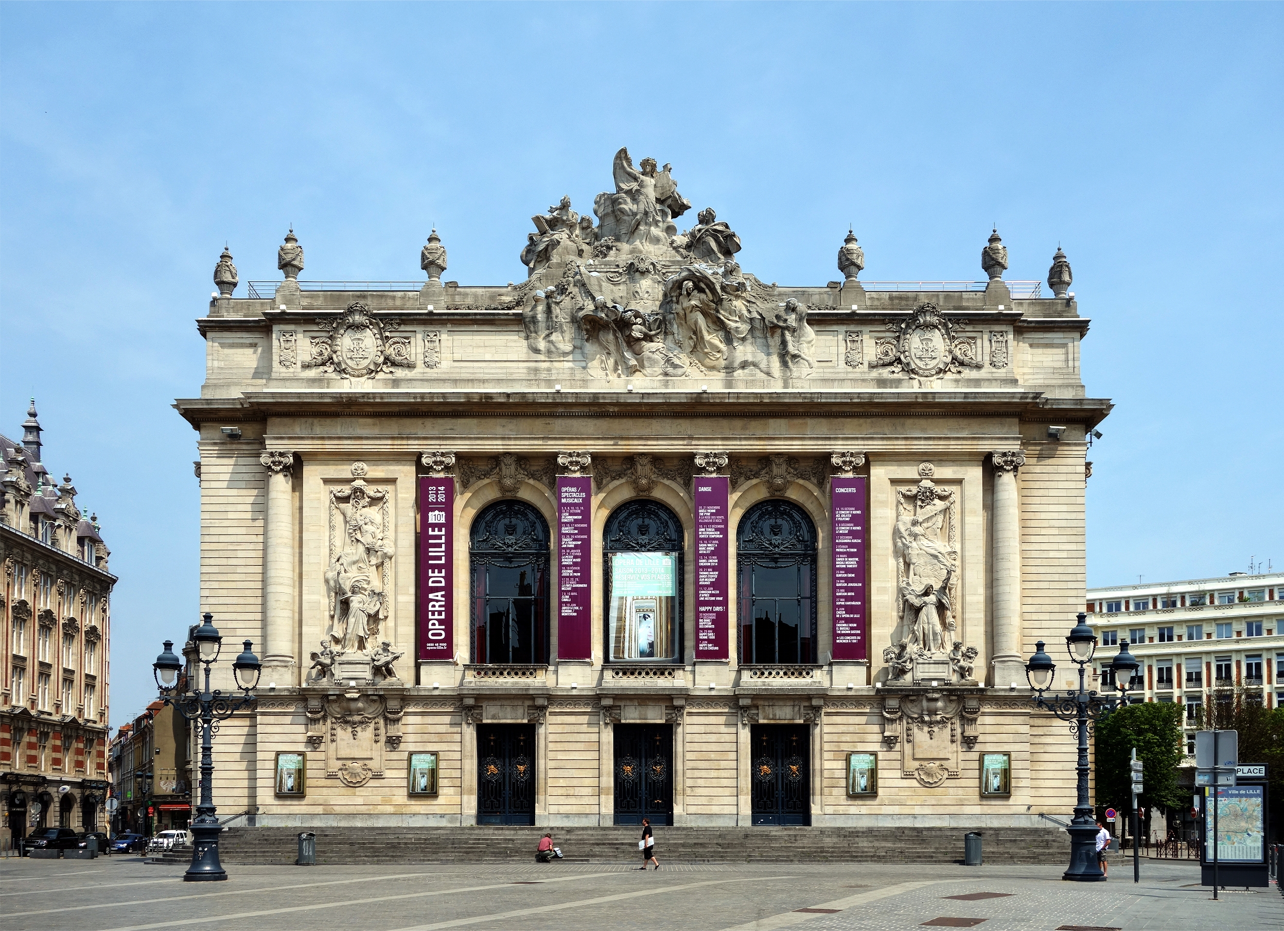 Opéra de Lille, France, built from 1907 to 1913 by architect Louis Marie Cordonnier.